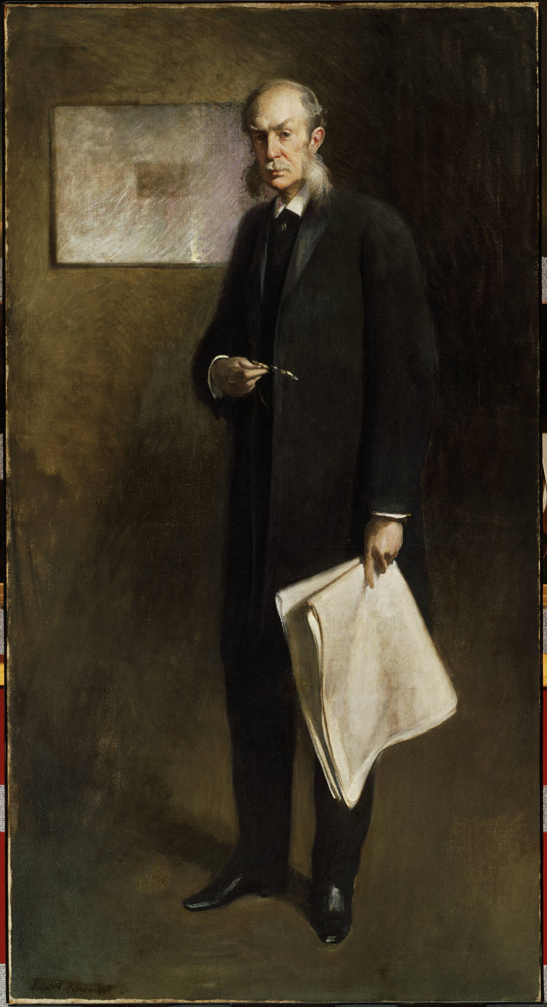 John White Alexander, American, 1856–1915 Henry G. Marquand, 1896 Oil on canvas 198 x 107 cm. (77 15/16 x 42 1/8 in.) frame: 214.3 × 123.3 × 9 cm (84 3/8 × 48 9/16 × 3 9/16 in.) Princeton University, presented by the daughters of Mr. and Mrs. Allan Marquand PP344